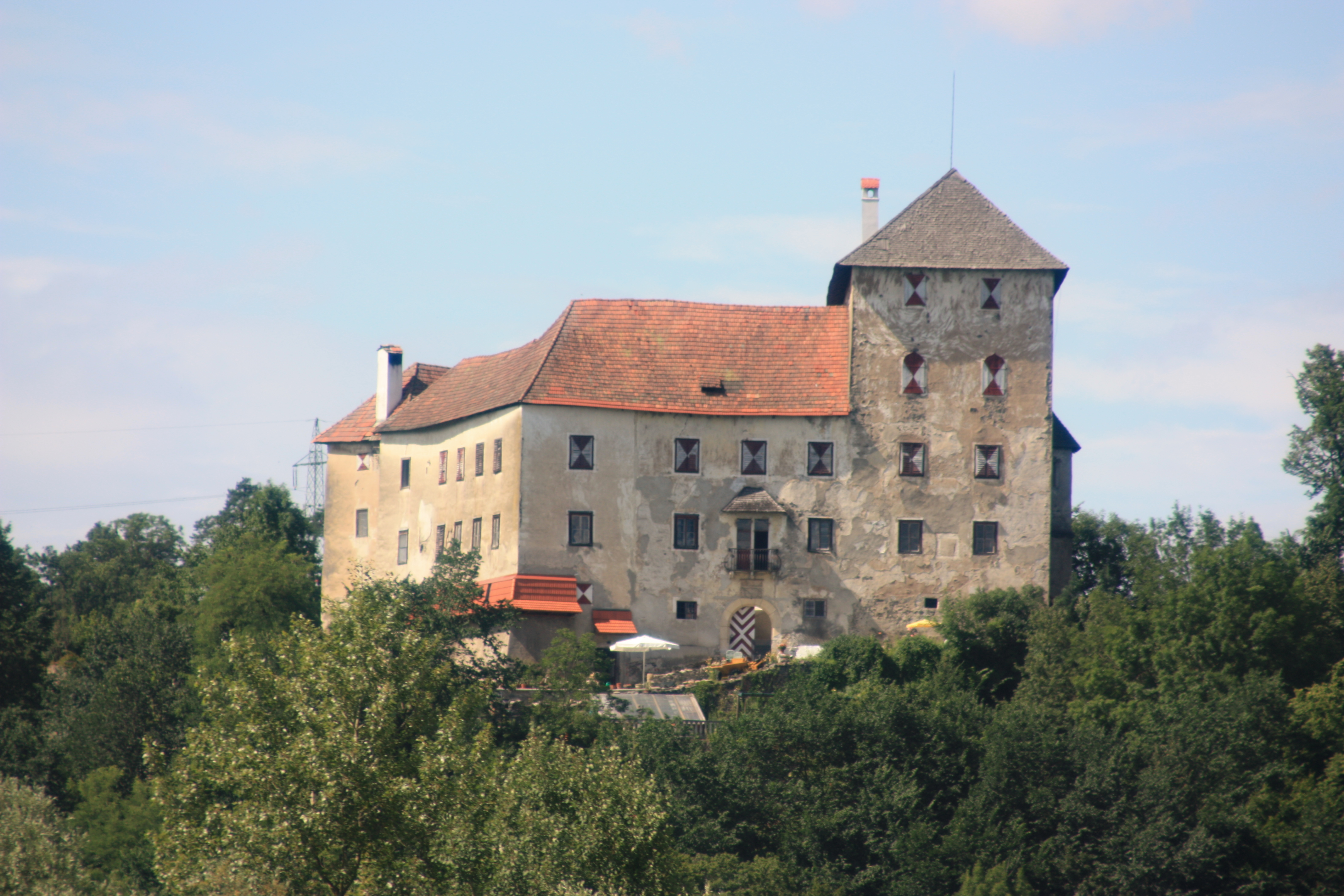 Neudenstein castle Locality:Neudenstein Community:Völkermarkt